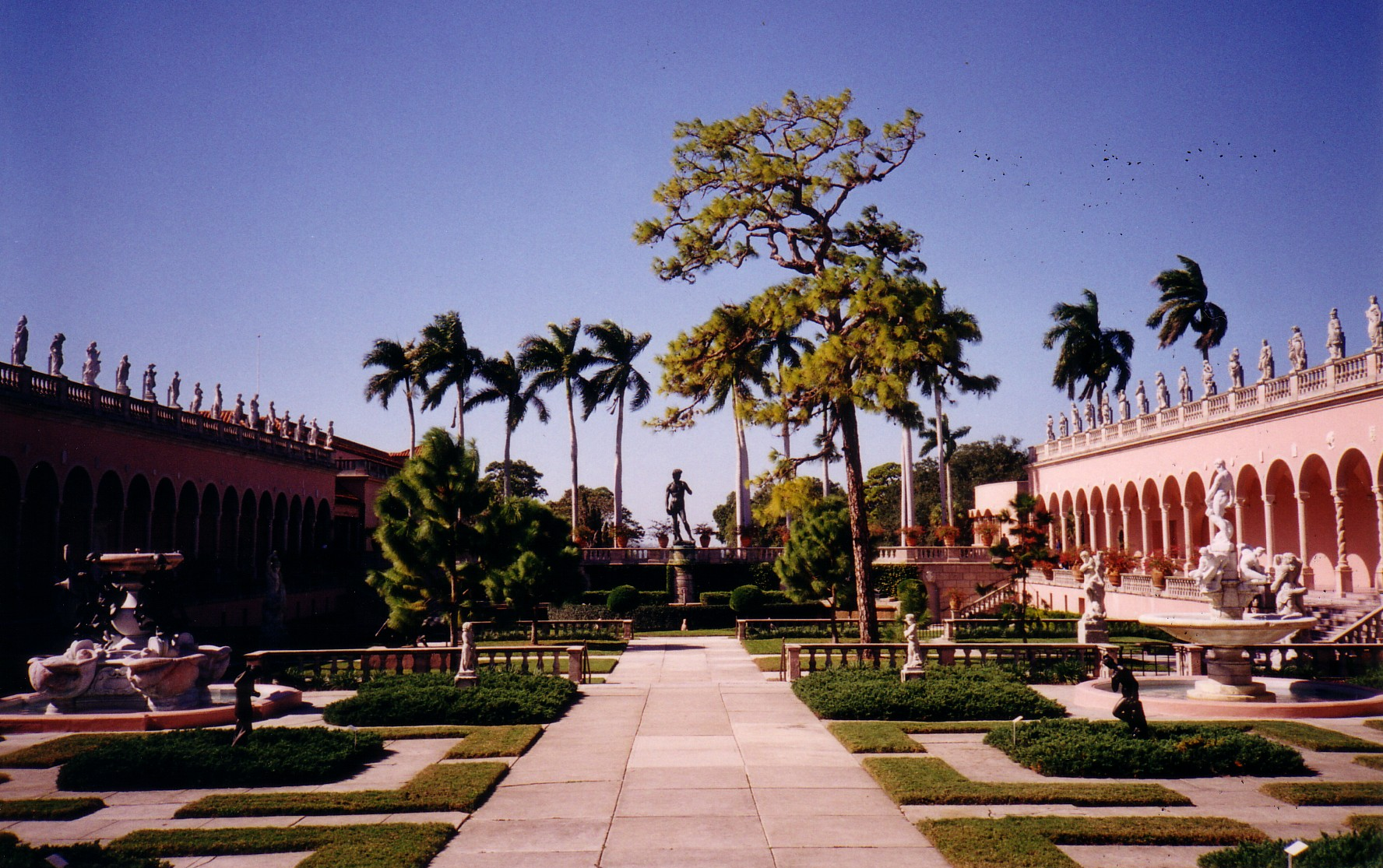 The garden of the Ringling Museum of Art